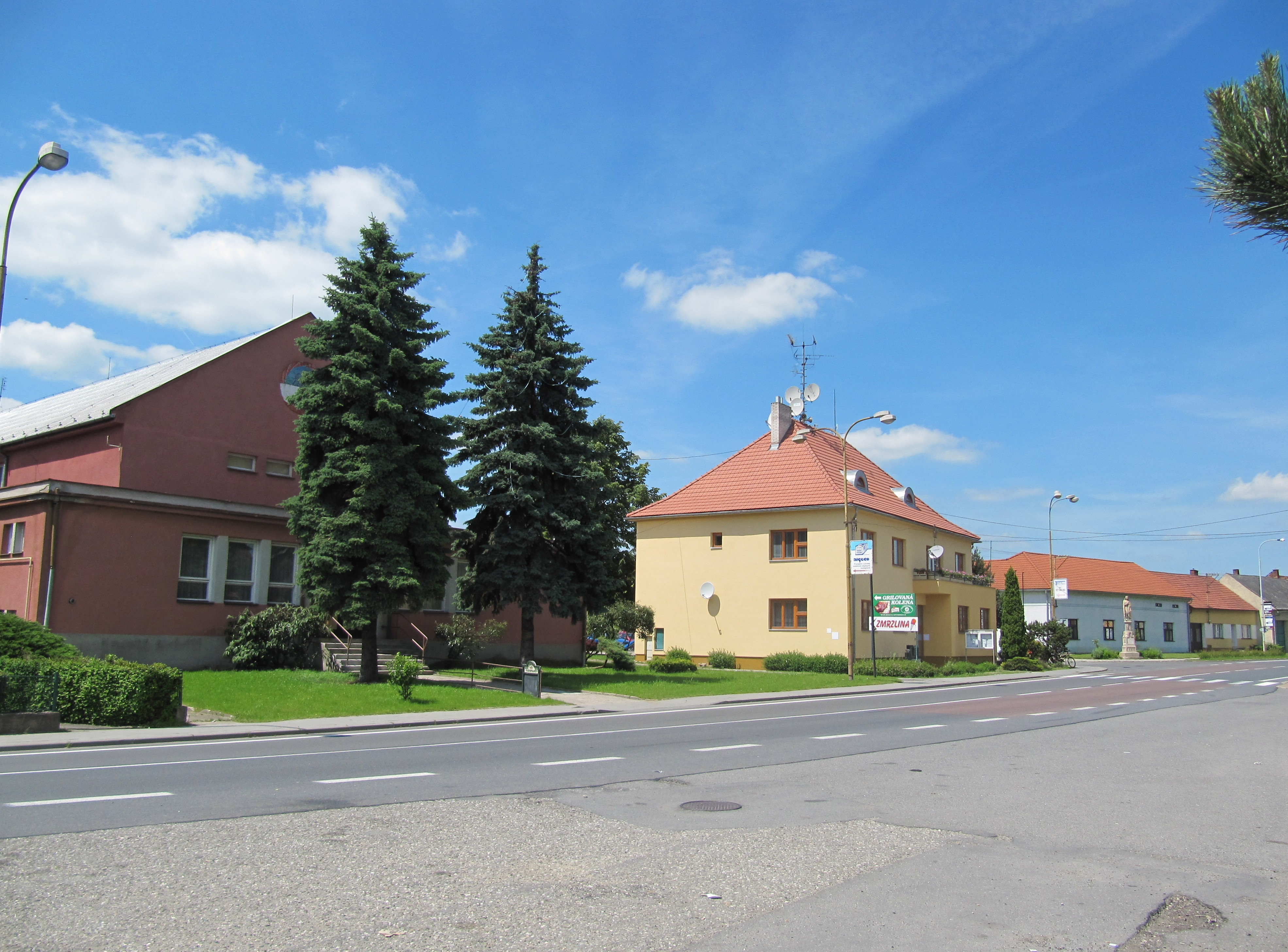 Spytihněv in Zlín District, Czech Republic.Municipal office.